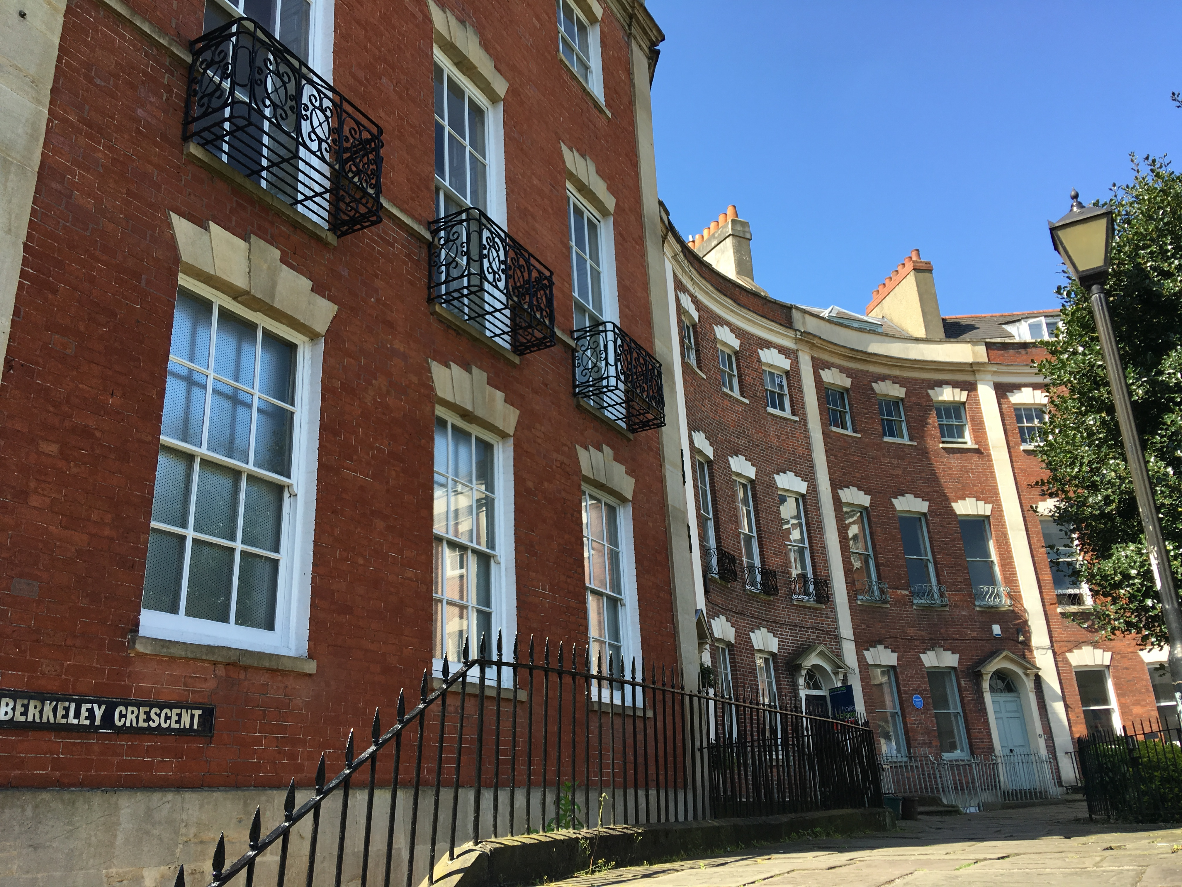 Bristol